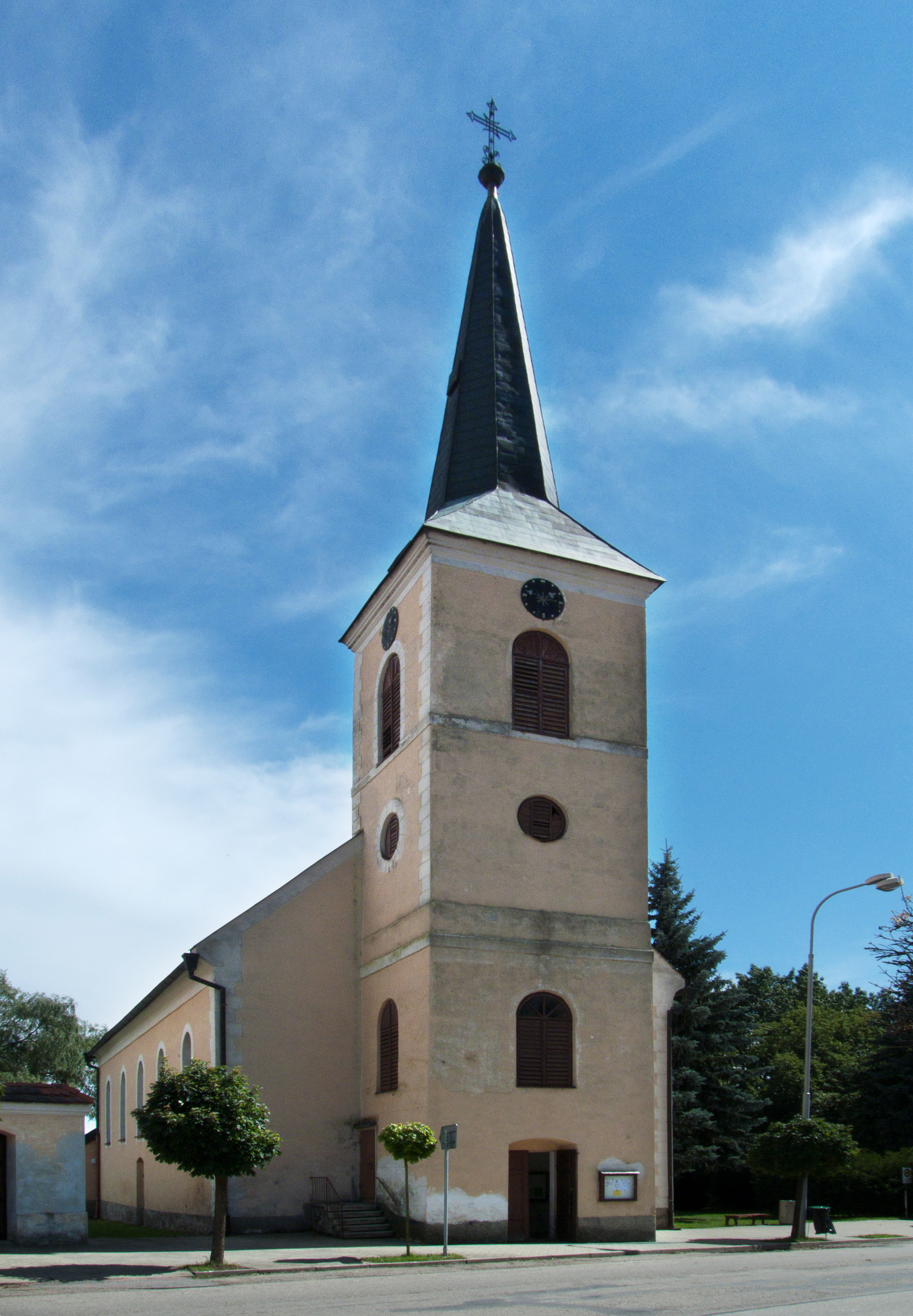 Assumption of the Virgin Church in the town of Nová Včelnice, Jindřichův Hradec District, Czech Republic